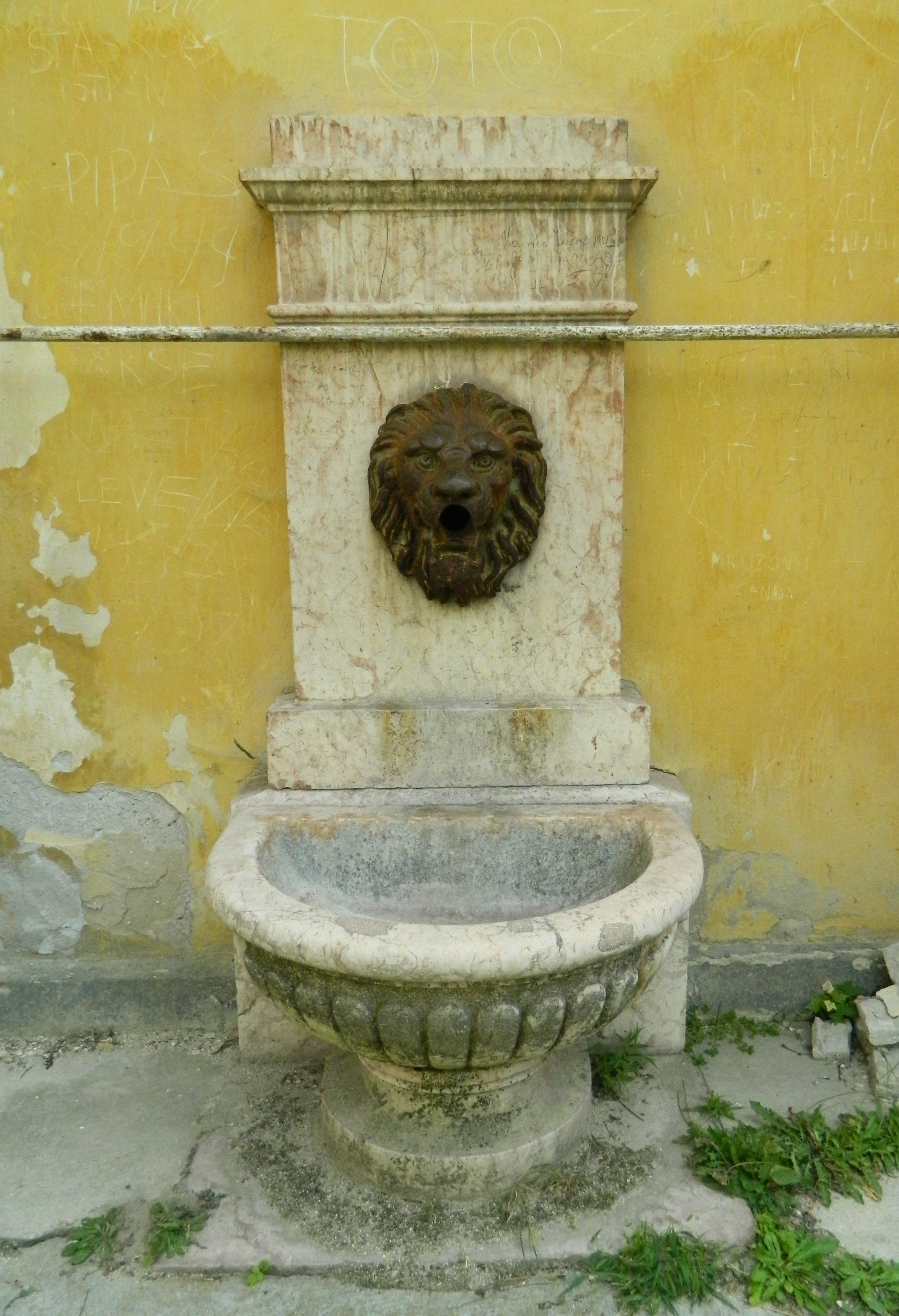 Károlyi Mansion, Füzérradvány This is a photo of a monument in Hungary. Identifier: 2768